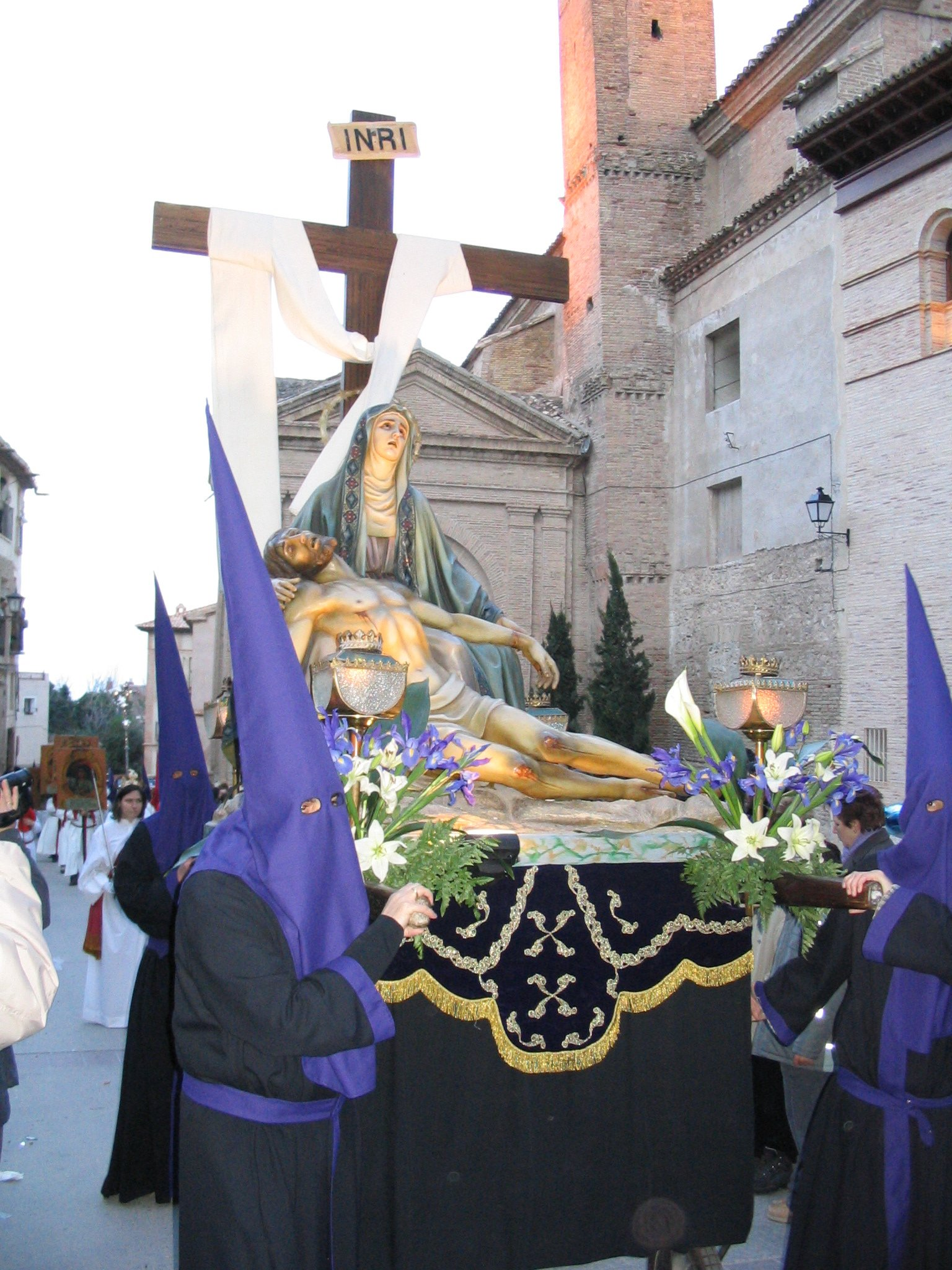 Easter Borja (La Piedad)